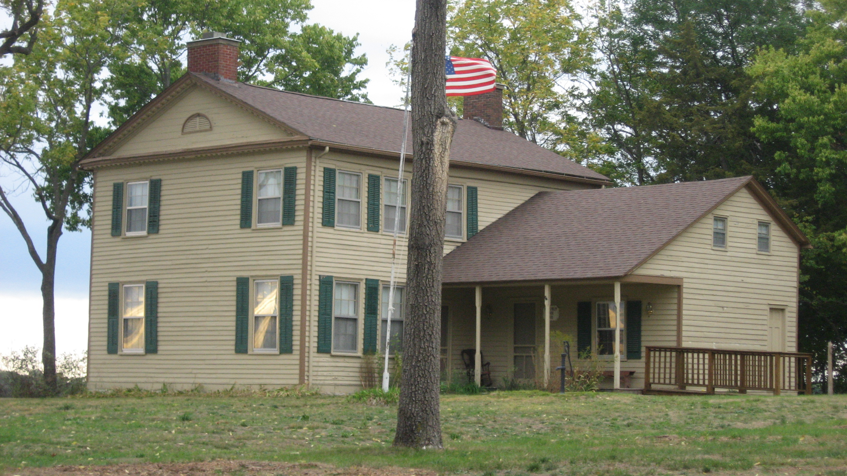 Rear and southern side of the Alexis Phelps House, located off Second Street on the Mississippi River bluffline in Oquawka, Illinois, United States. Built in 1833, it is listed on the National Register of Historic Places.